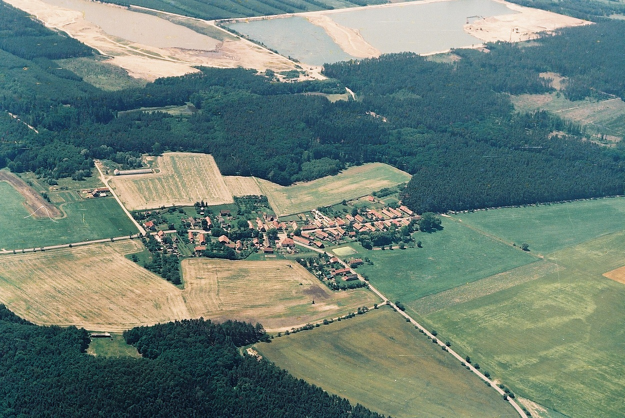 Aerial view of Štít, a part of Klamoš municipality, Hradec Králové District, Czech Republic